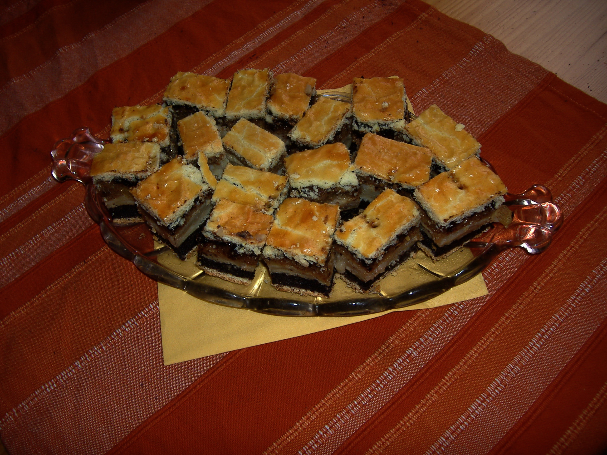 "Flódni" Jewish cake